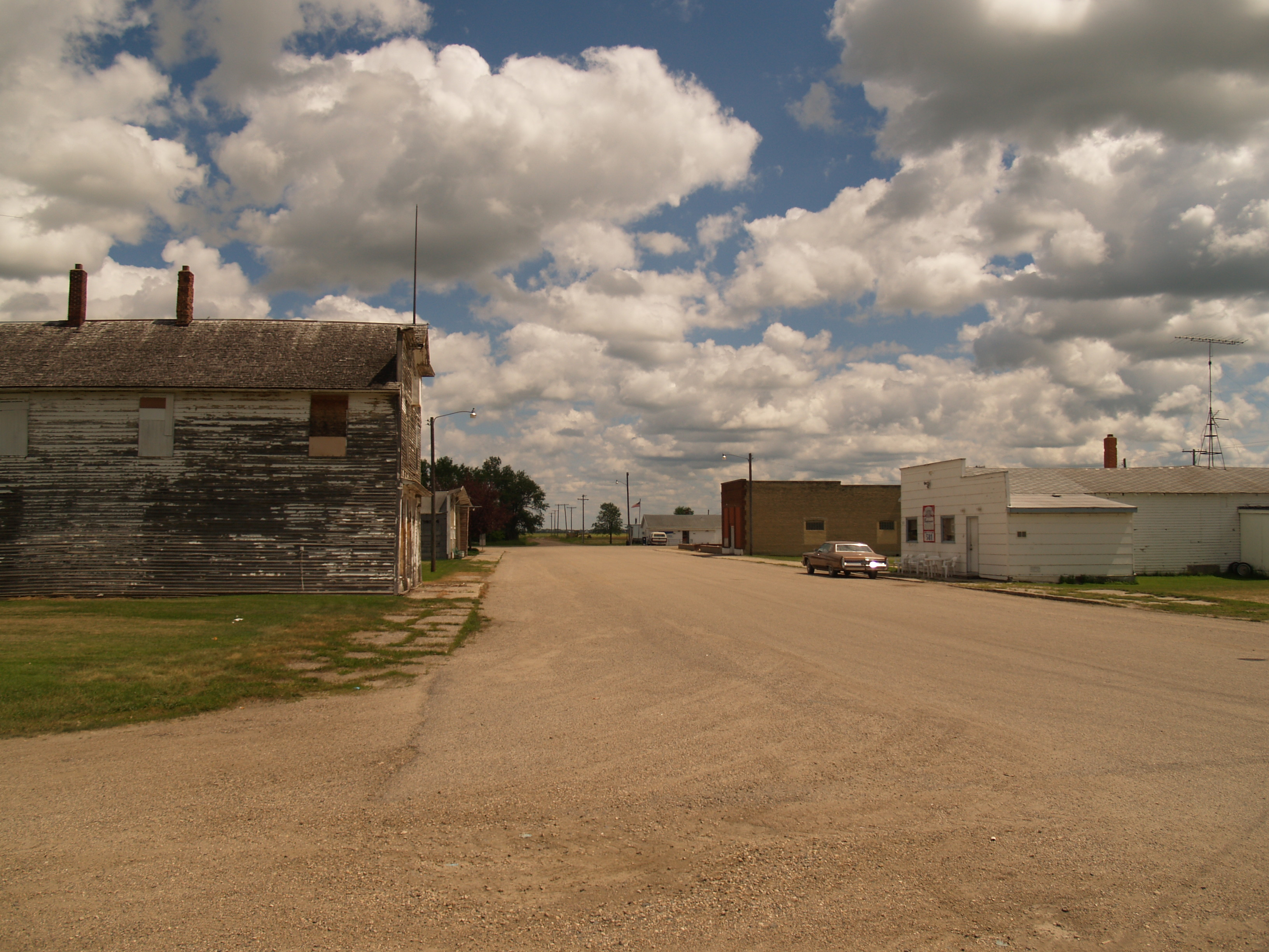 Hamilton, North Dakota